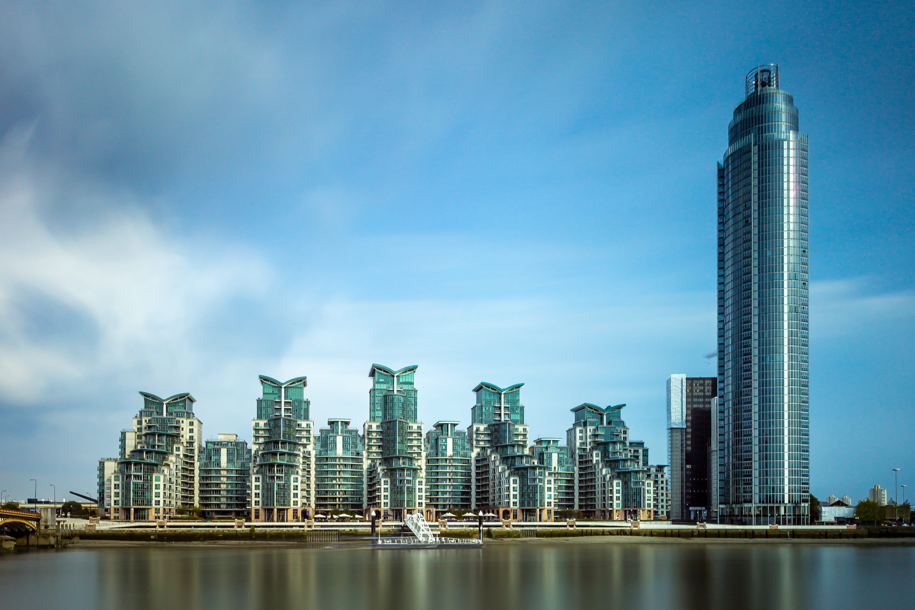 A long exposure photograph of the St George Wharf complex, including The Tower, taken from the opposite bank of the Thames.